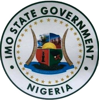 Logo for the Government of Imo State